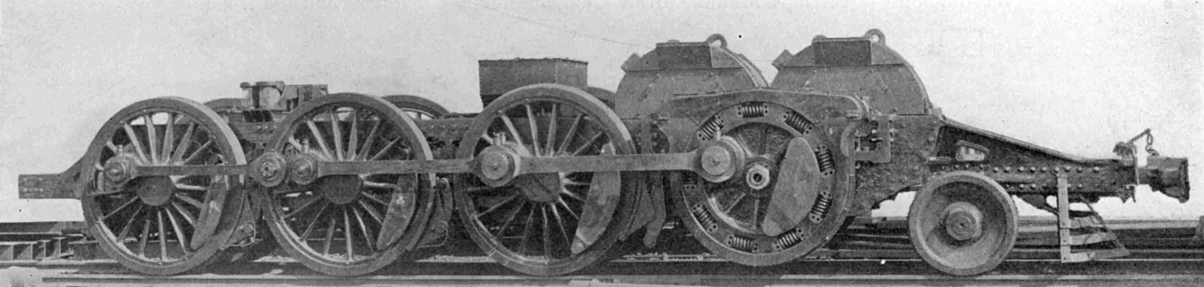 PRR FF1 power truck showing motors and spring drive